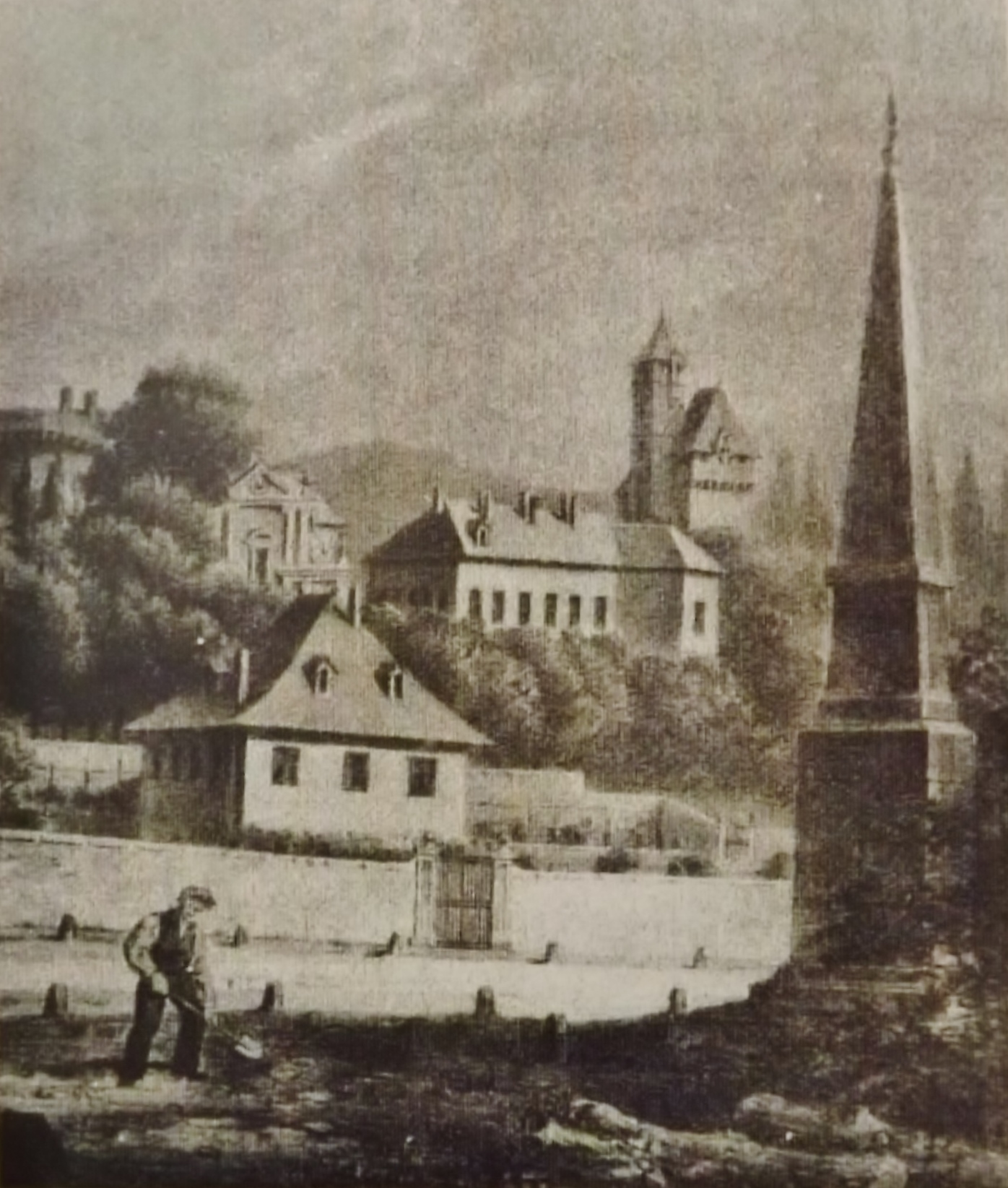 Sight of the gardener lodge in the château des ducs de Savoie castle gardens, in Chambéry (Savoie) in 1832.